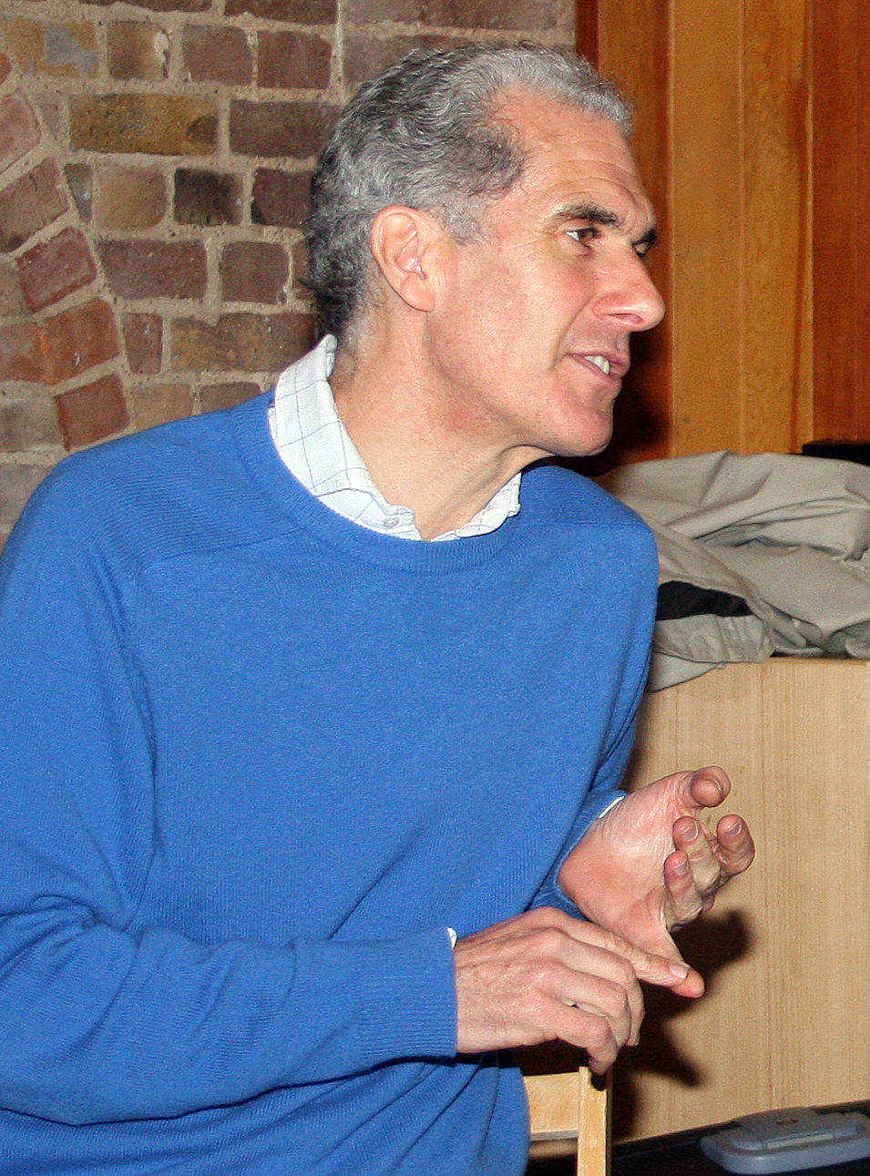 Nicky Gumbel, Vicar at the Holy Trinity Brompton, author, and Alpha course pioneer